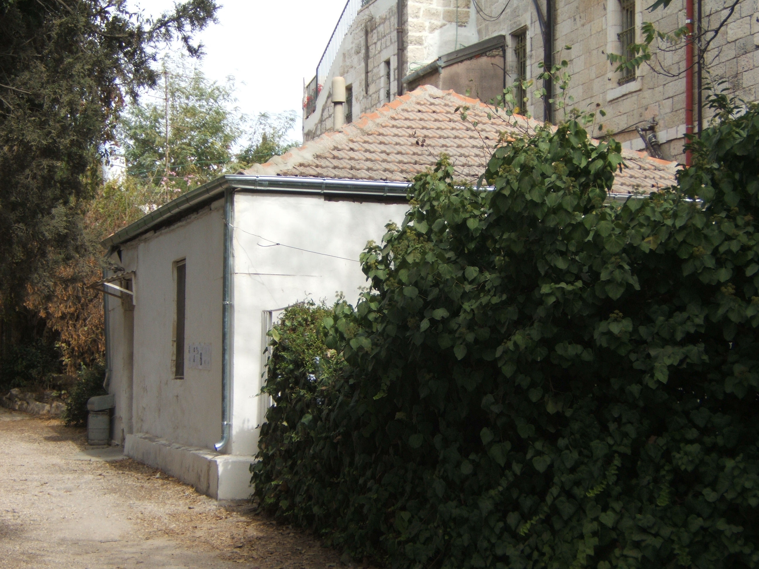 House of Rachel Bluwstein,near 64 Street of Prophets, Jerusalem